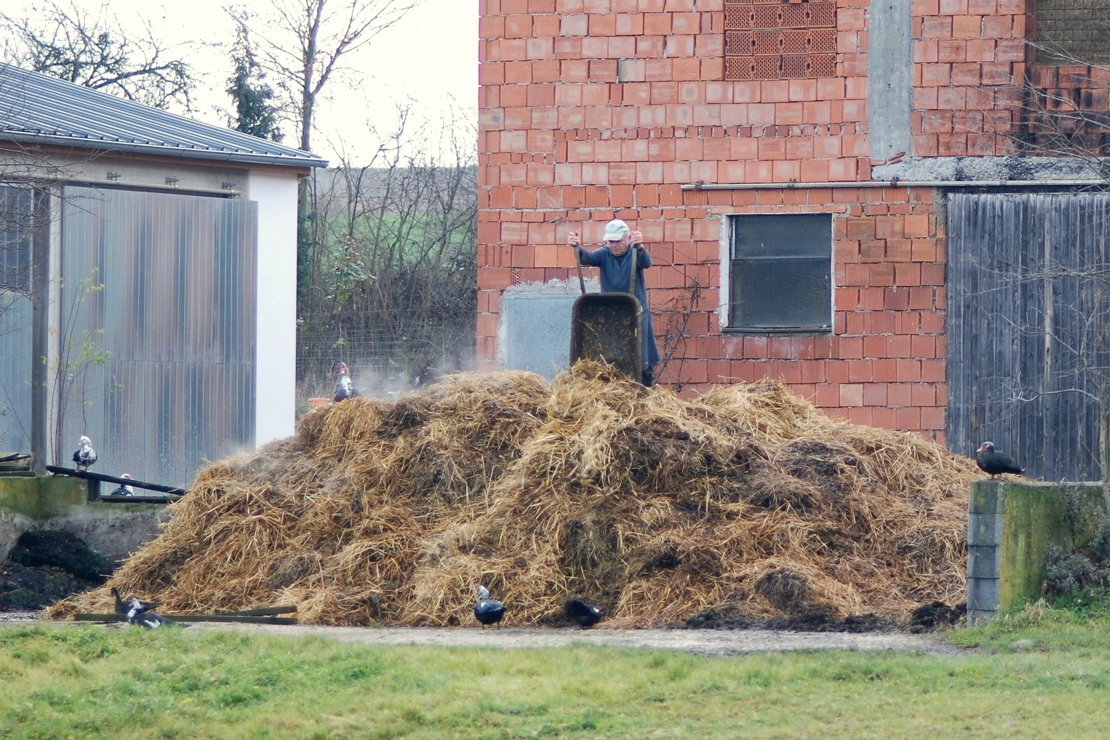 A farmer on a manure heap in Engerwitzdorf, Upper Austria